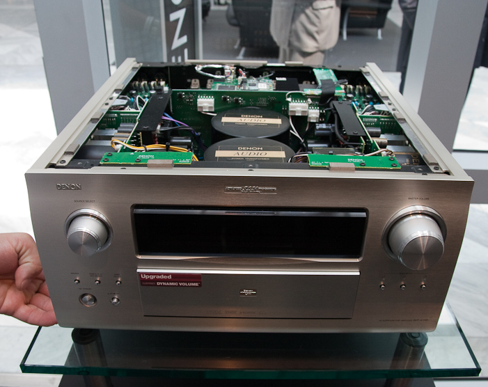 Denon AVP-A1HDA // Exhibits at HighEnd 2009 trade show, Munich, April 2009